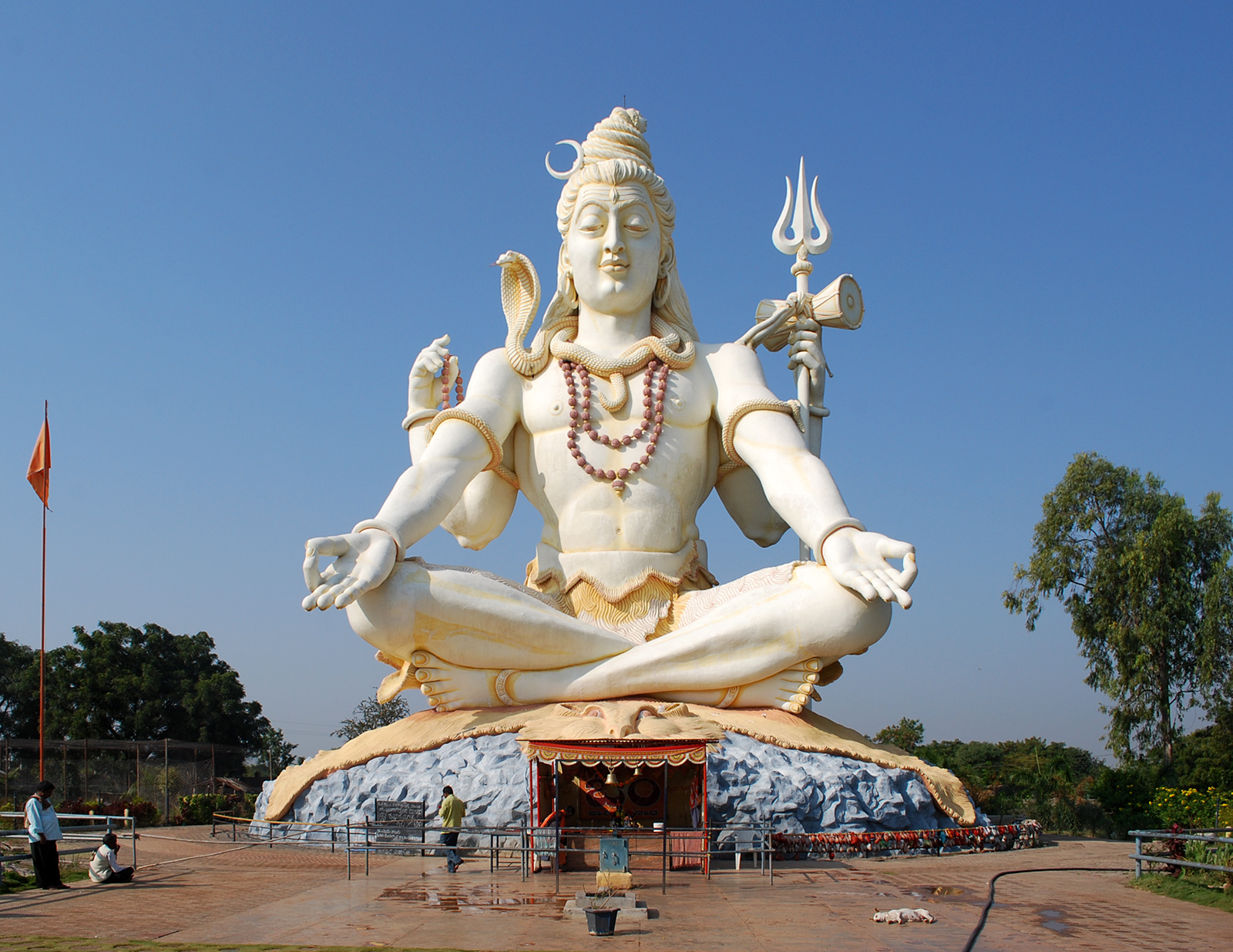 Lord Shiva Statue at Bijapur